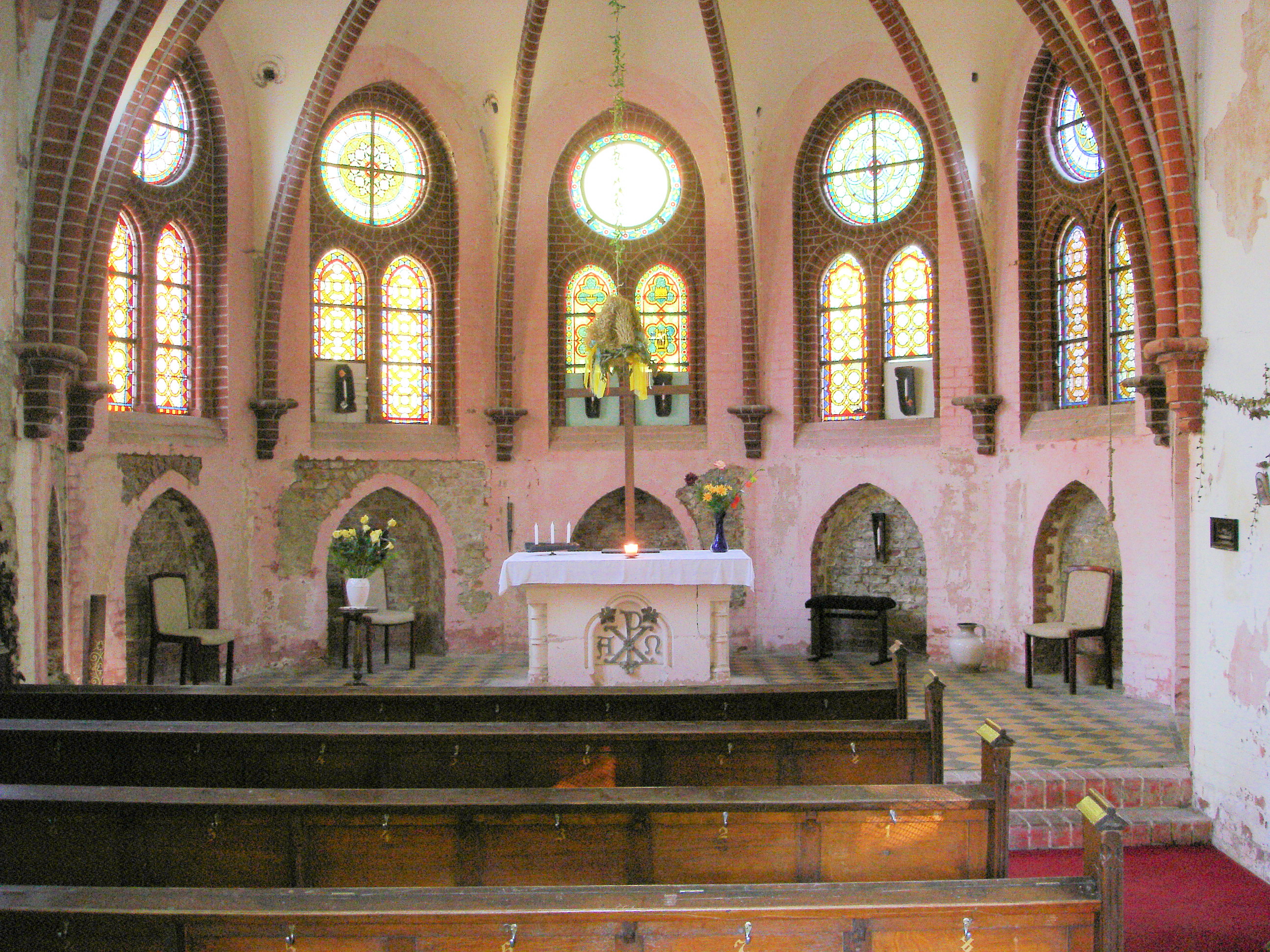 Catholic chapel in Heiligendamm, Mecklenburg, Germany